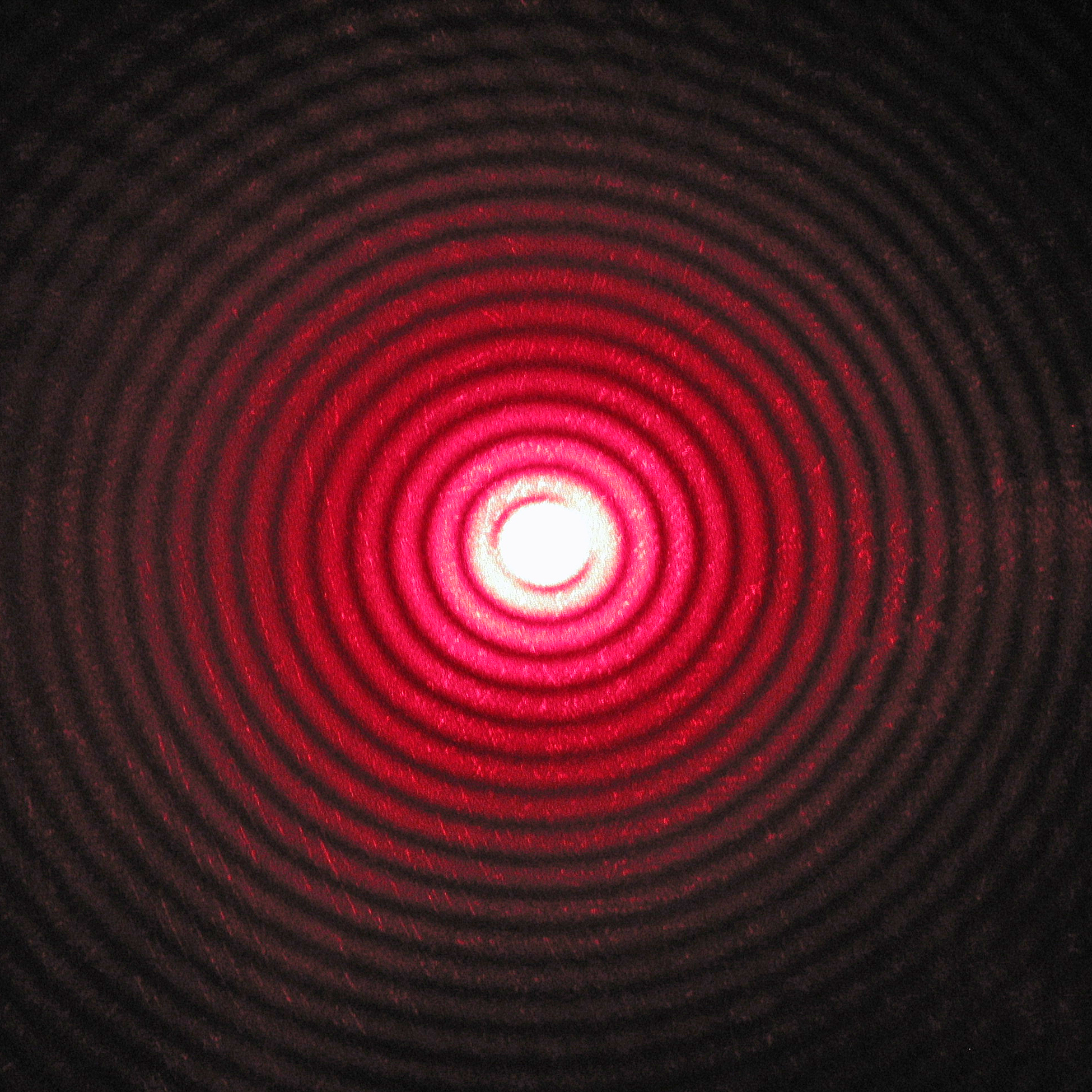 Diffraction pattern of red laser beam made on a plate after passing through a small circular aperture in another plate. Physical optics is used to explain effects such as diffraction.